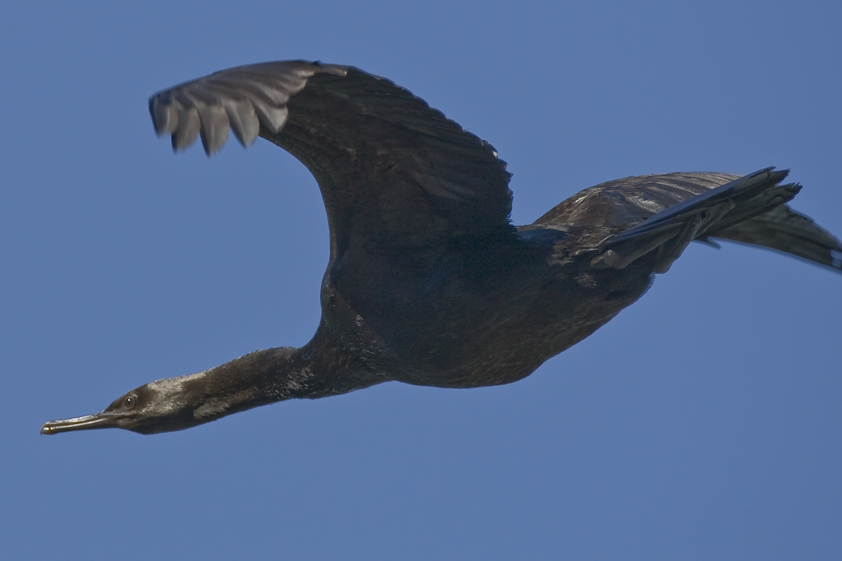 Pelagic Cormorant (Phalacrocorax pelagicus) flying in 40 km/h winds off Morro Rock in Morro Bay, CA 19oct2007 - Photo by Mike Baird